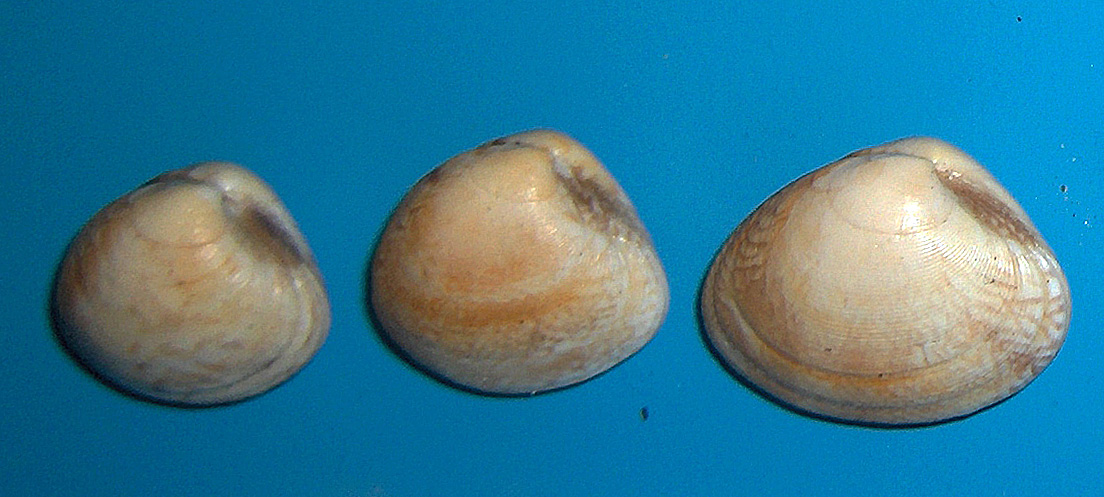 Venerupis aurea, a bivalve from the family Veneridae